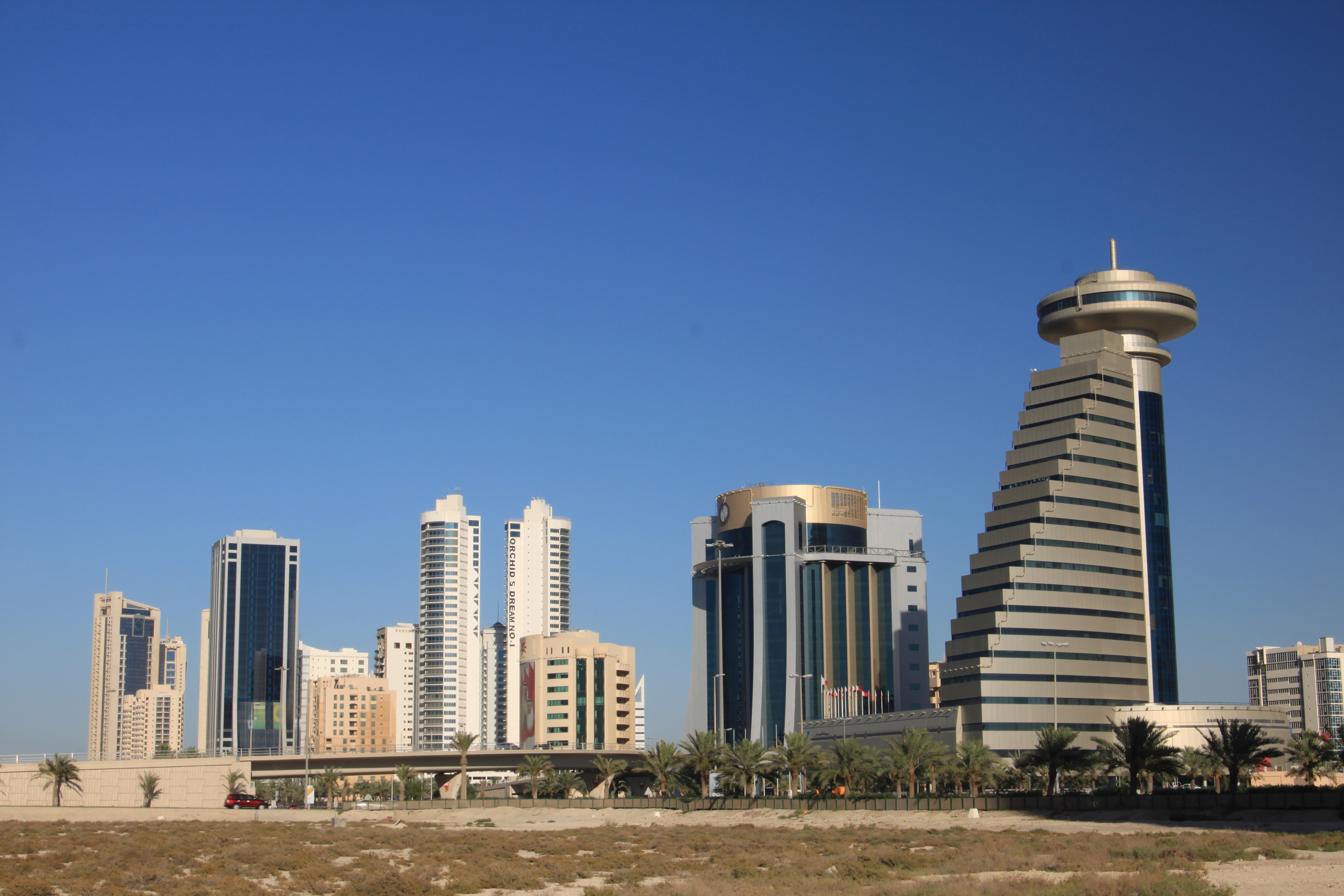 Manama cityline. Bahrain.